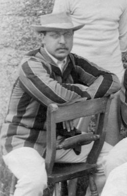 The Kent County Cricket team, circa 1888. Rev Richard Thornton.